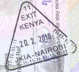 Kenya exit passport stamp